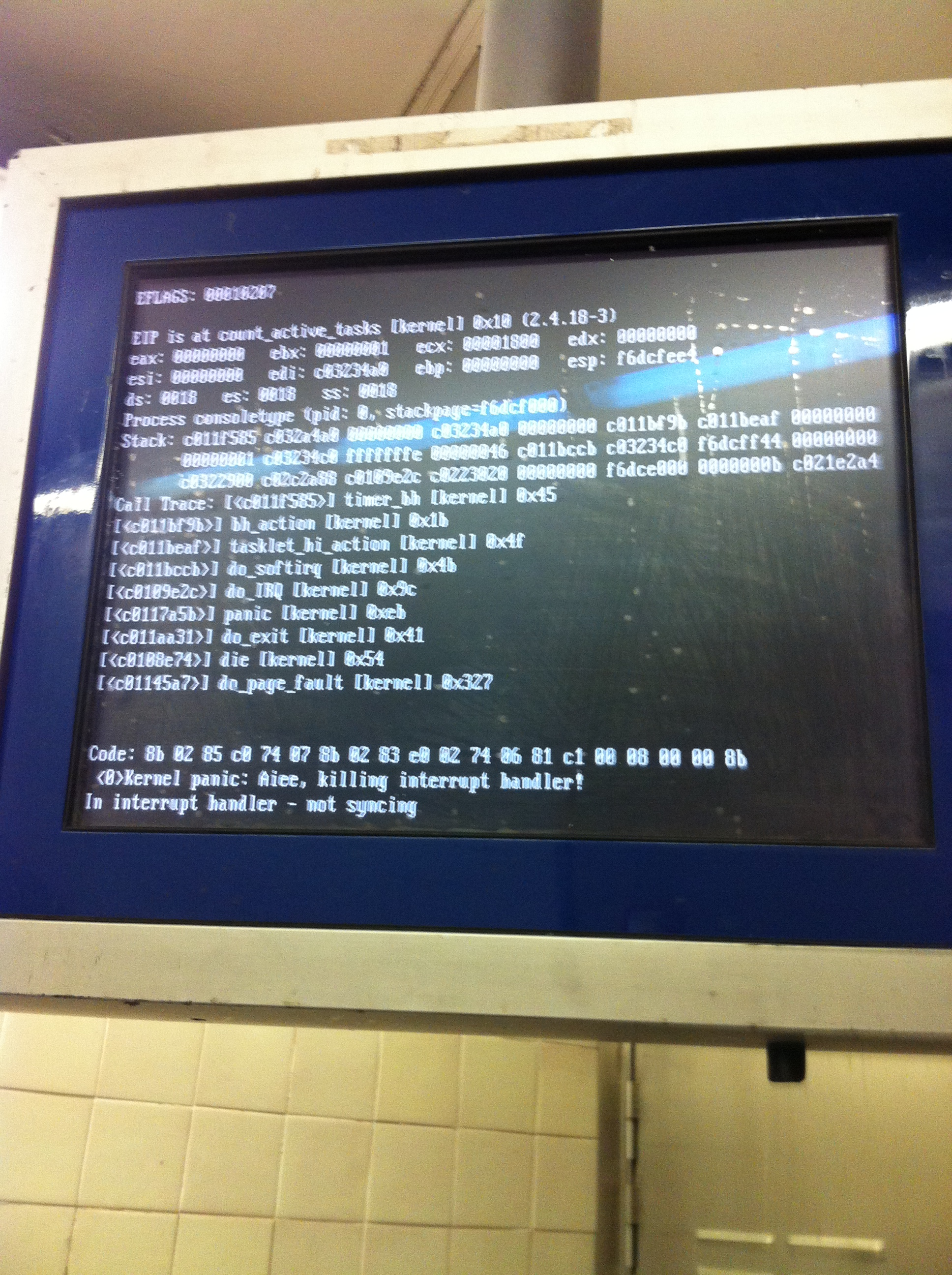 Linux kernel panic on a RATP Paris public transportation information screen.